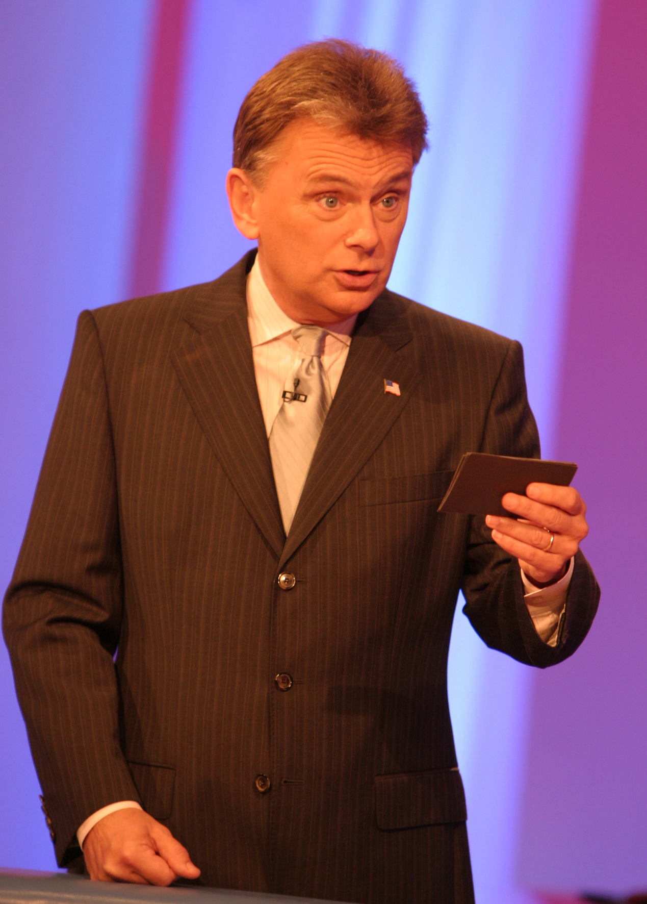 "Wheel of Fortune" host Pat Sajak speaks to contestants during a taping of the popular game show at Sony Entertainment Studios in Los Angeles Feb. 8. Fifteen servicemembers appeared as contestants on the show when it hosted "Wheel Salutes the Armed Forces," which is scheduled to air the week of April 3.